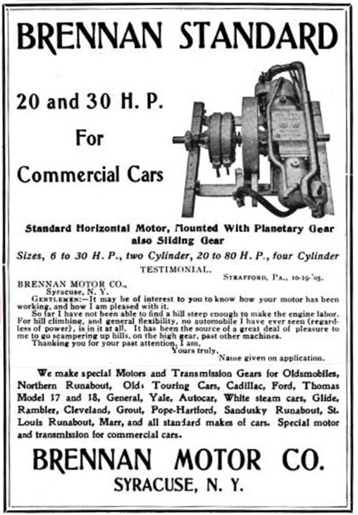 Brennan Motor Company of Syracuse, New York - 1905